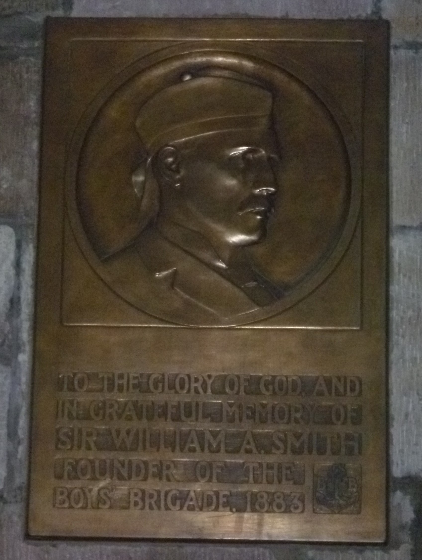 William Smith memorial plaque, St. Giles, Edinburgh